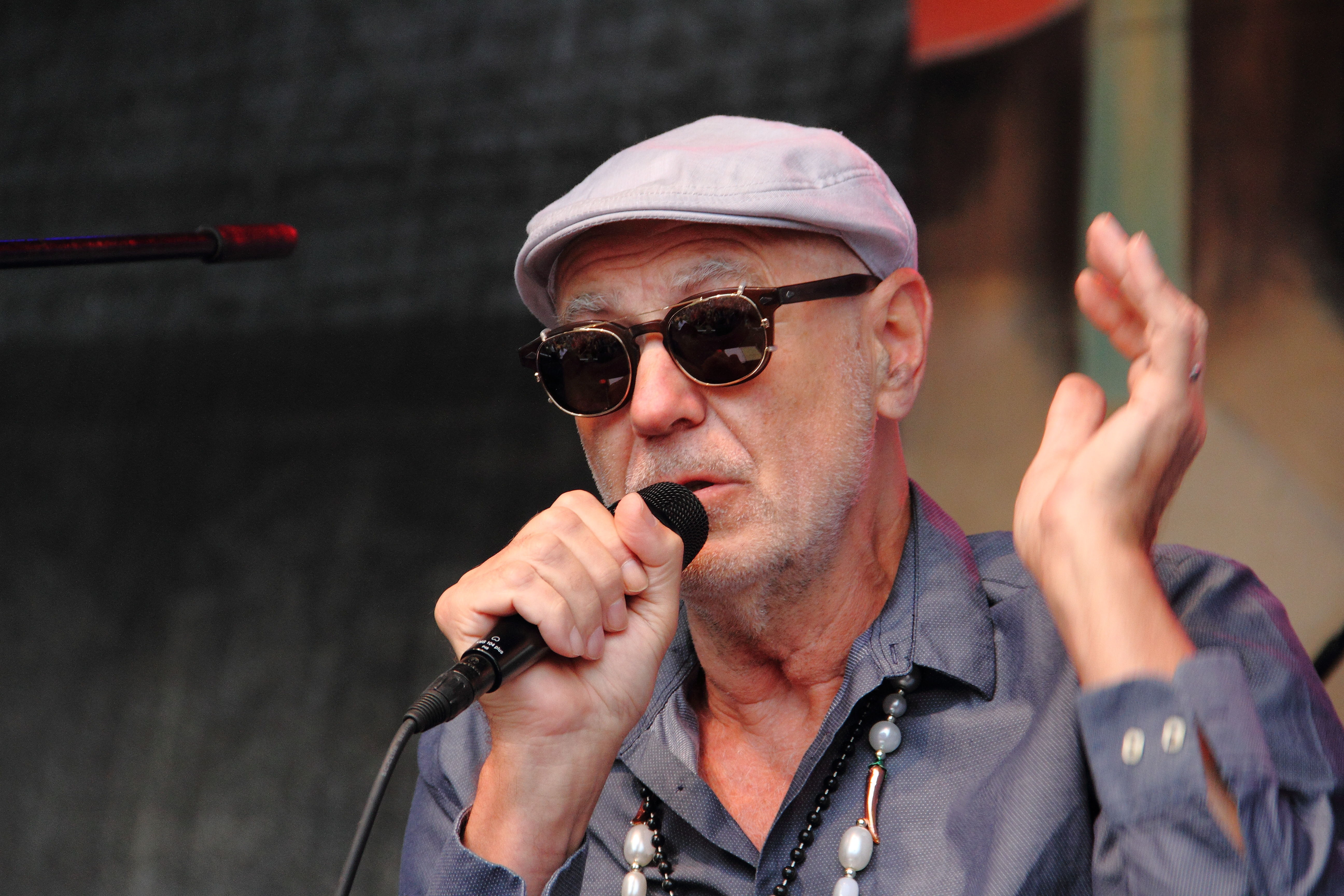 Willi Resetarits with Molden/Resetarits/Soyka/Wirth at Rudolstadt-Festival 2016.